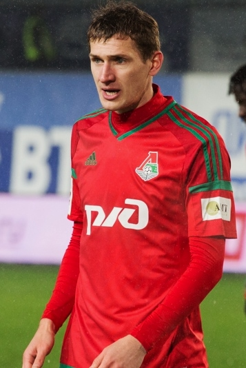 Aleksandr Kolomeytsev